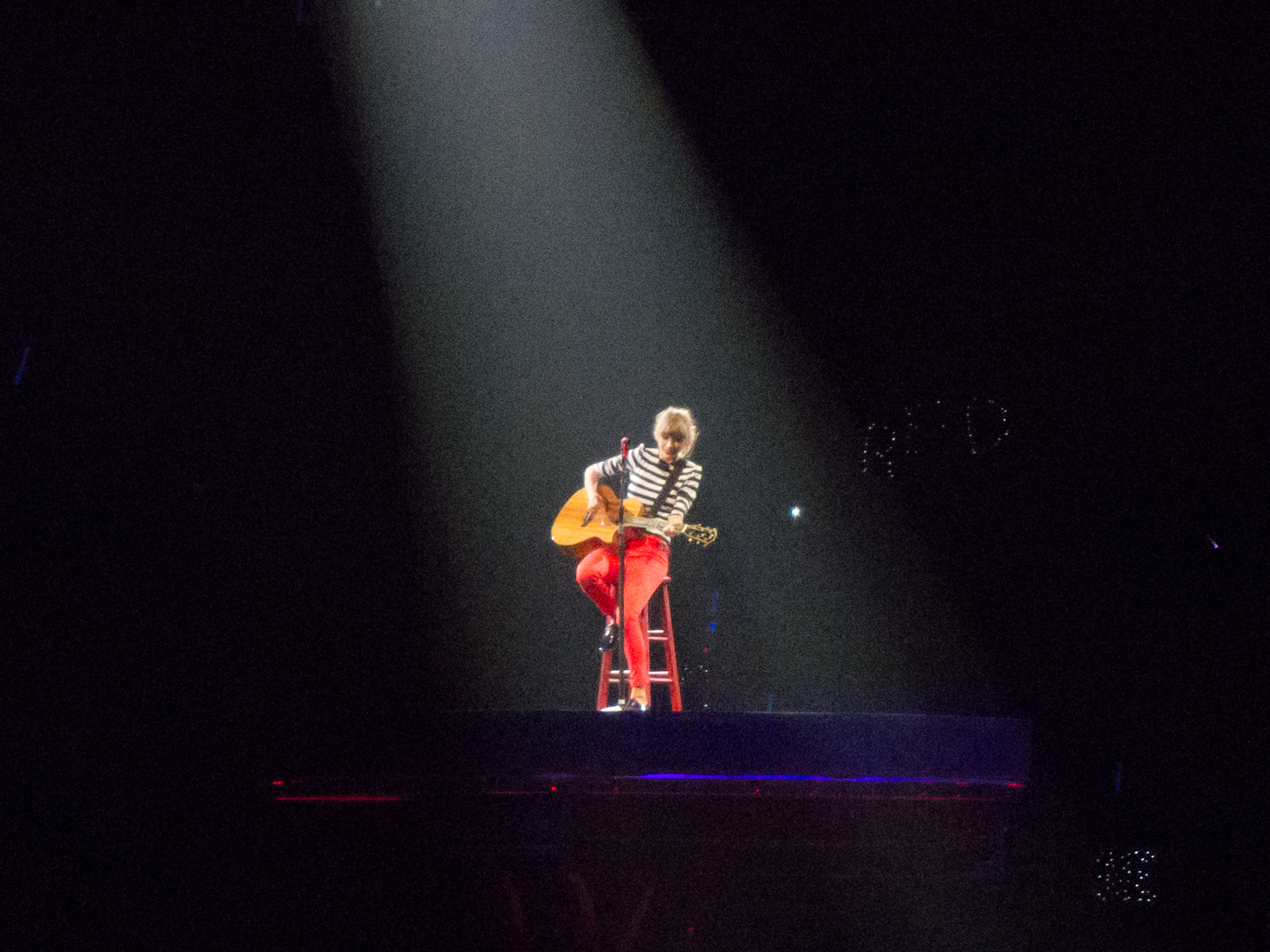 Taylor Swift during the Red Tour, March 2012, performing Begin Again